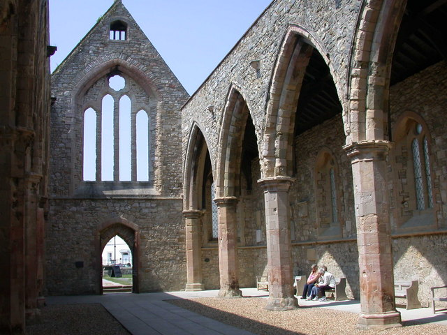 The Royal Garrison Church The remains of the church stand as they were after a bombing raid on January 10, 1941. Before the reformation it was an almshouse and hospice known as Domus Dei or the Hospital of Saint Nicholas.